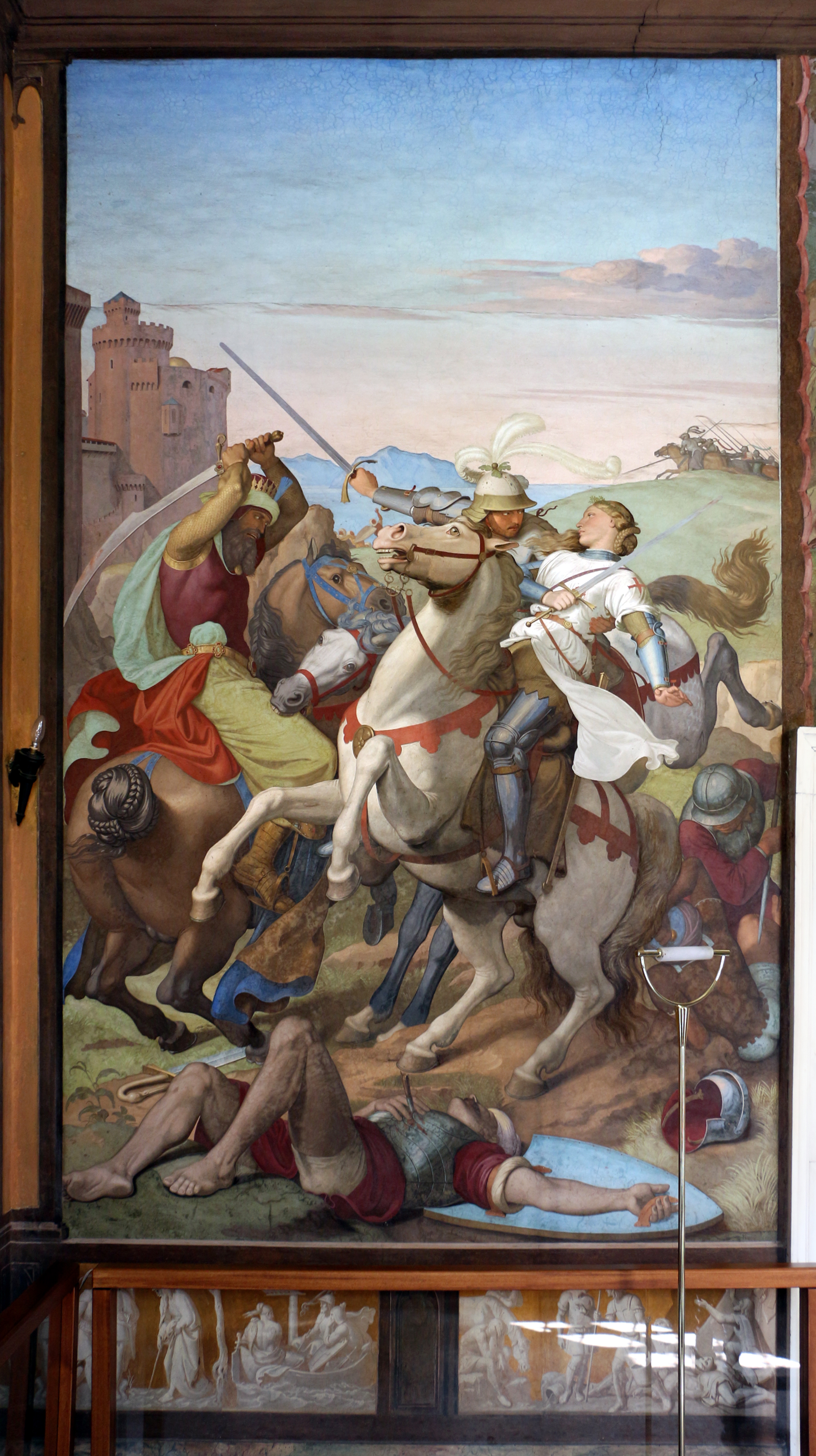 Casa Massimo frescos - stanza del Tasso